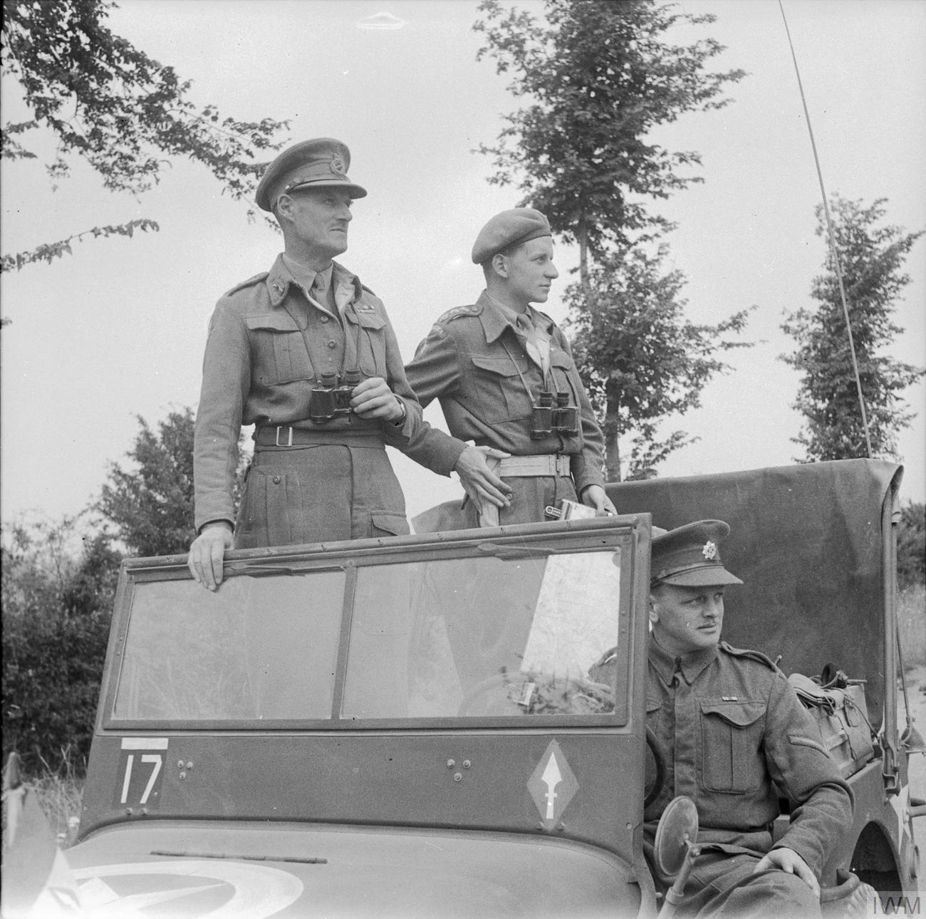 Operation Overlord (the Normandy Landings)- D-day 6 June 1944 The Commanding Officers of 21st Army Group: Lt General J T Crocker CB CBE DSO MC, Commander of British 1st Corps, watching the fighting near Caen from a jeep. With him are his ADC Captain Cross and Lance Corporal Marsden, his driver. 1st Corps encompassing British and Canadian forces landed at SWORD and JUNO.